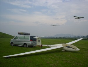 At Itakura Gliderport, Gunma, Japan. A single seat high performance sailplane, Discus b, is ground towed by a motor vehicle. Note that there is a small wheel attached under the right wing tip. A tail dolly mounted temporarily makes ground handling easy.